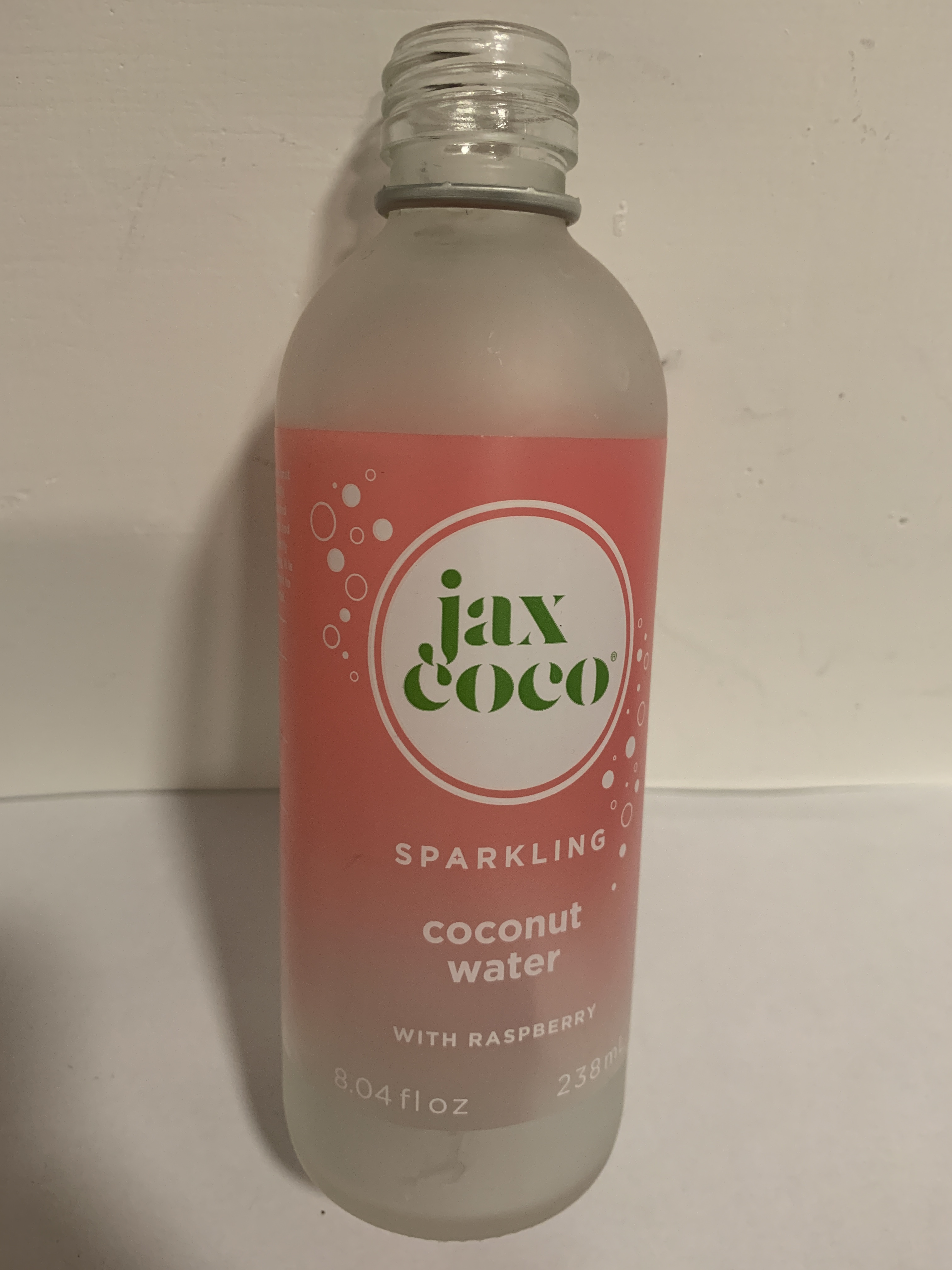 Jax Coco bottle front